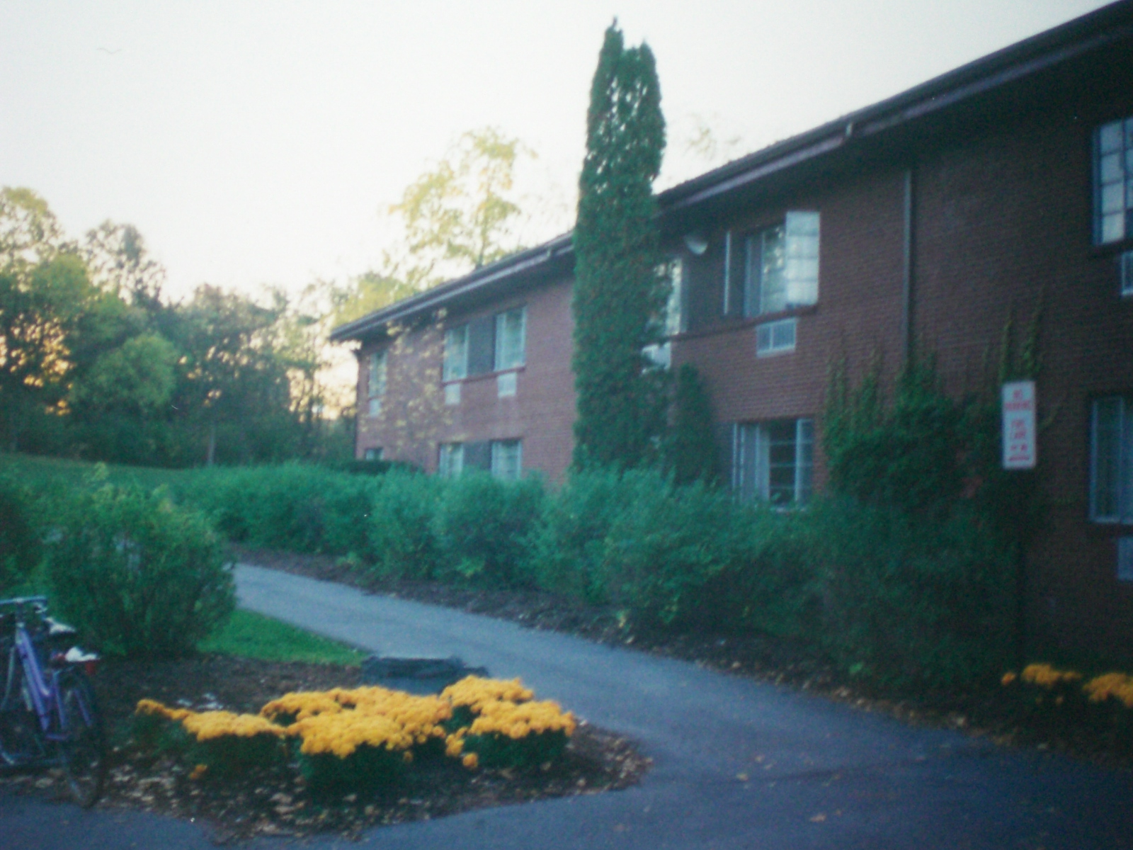 The Hurlburt Residential College for Environmental Education and Awareness, commonly called the Eco-House, at the North Campus of Cornell University. Taken sometime in the Spring of 1996.